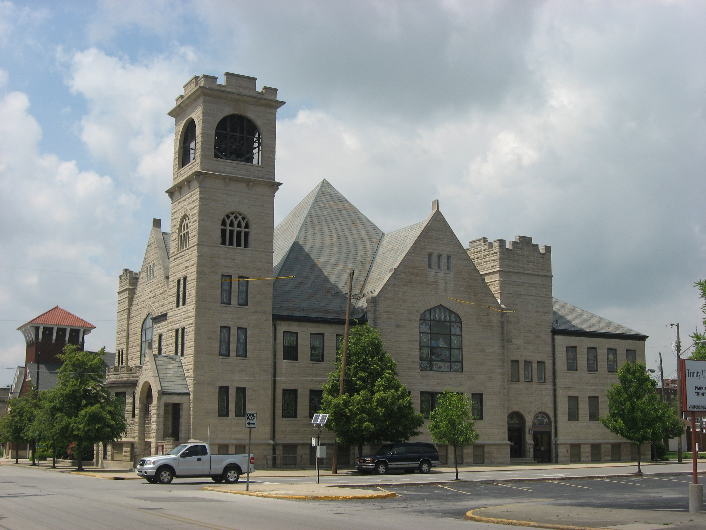 Front and eastern side of the Trinity United Methodist Church, located at 530 Guilford Street in Huntington, Indiana, United States. Built in 1914, it is part of the Old Plat Historic District, a historic district that is listed on the National Register of Historic Places.